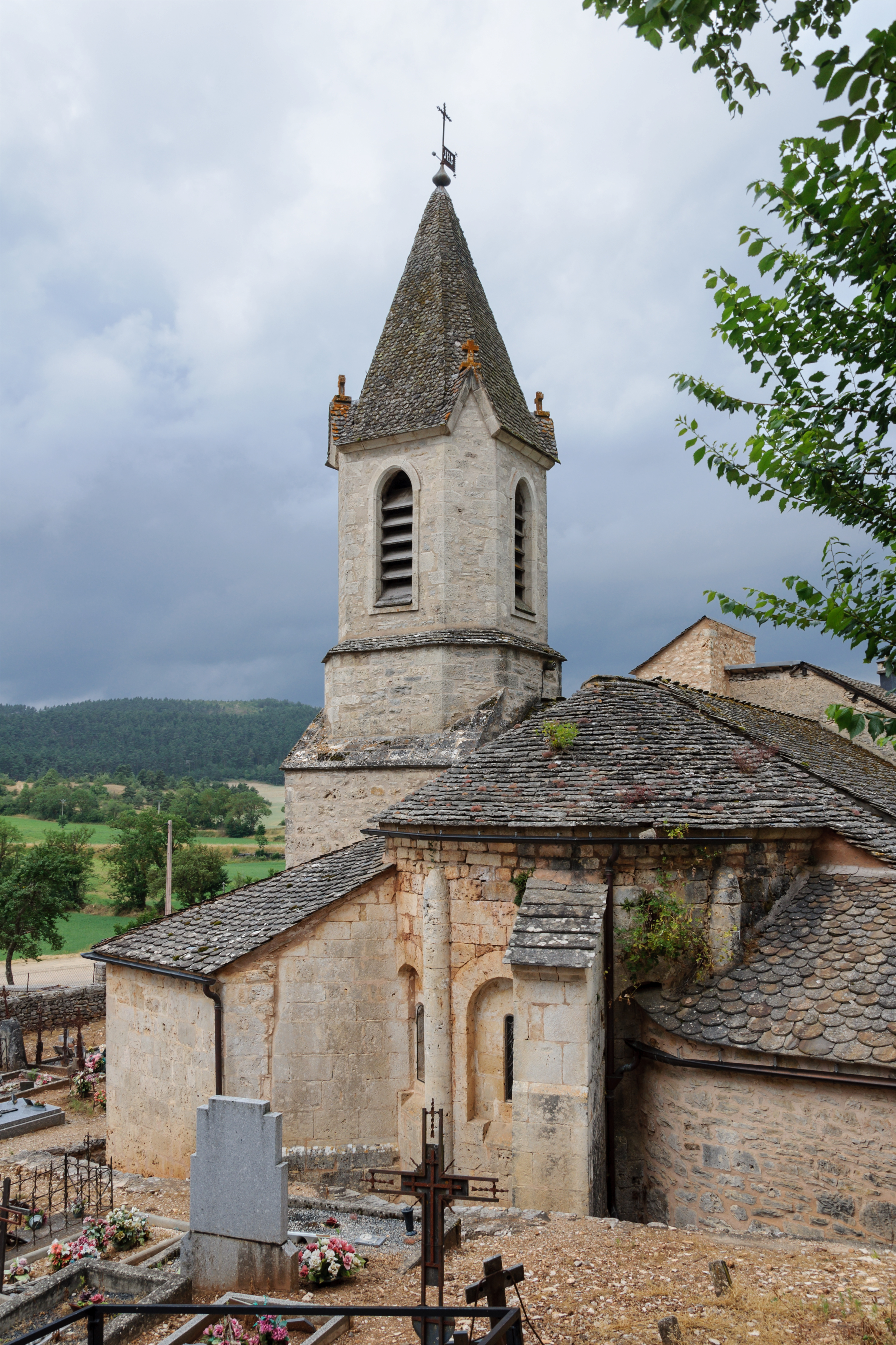 Saint Martin's Church of La Capelle, La Canourgue, Lozère, France: view of the apse .